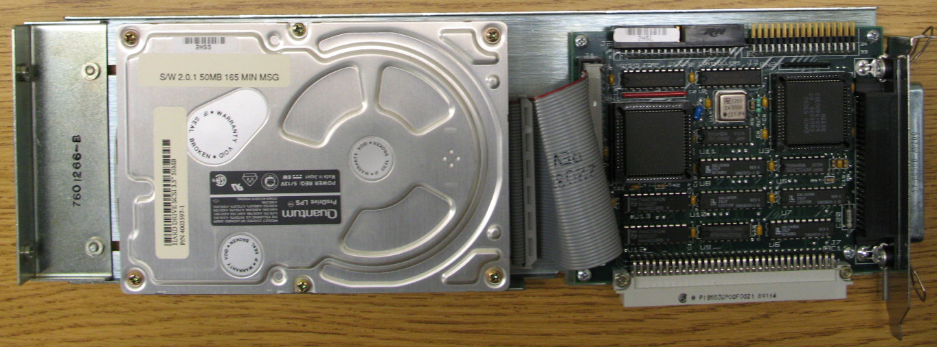 Example of a hard card, a hard disk mounted on a carrier along with the drive controller (in this can a SCSI/floppy controller) that plugs into a slot on the computer motherboard. Note the weird slot connector, which looks like nubus but only uses two rows of pins, apparently a more reliable alternative to the standard ISA card-edge slot.